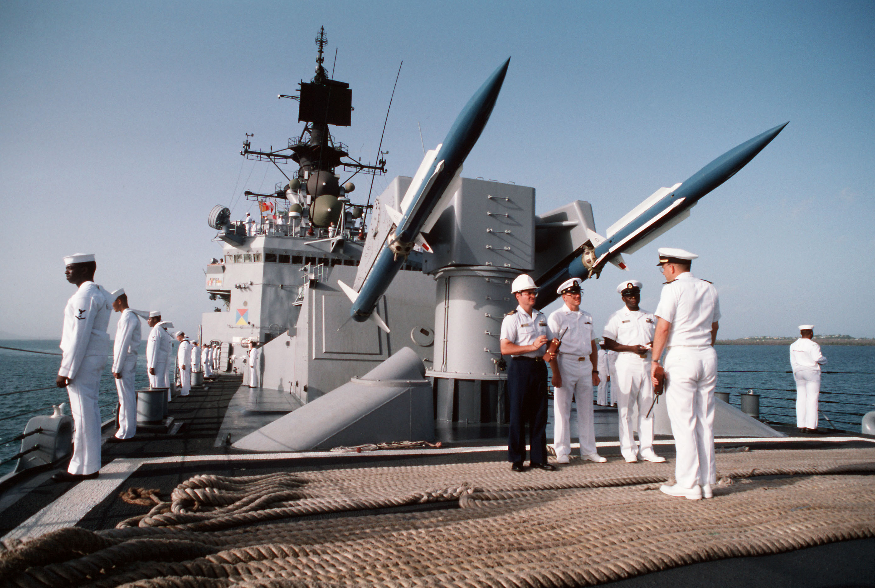 U.S. Navy sailors man the rails as officers stand beneath the RIM-67 Standard SM-2 ER missiles in the Mark 10 launcher aboard the guided missile cruiser USS Josephus Daniels (CG-27). The crew is preparing for Rear Admiral (lower half) John R. Dalrymple, commander, South Atlantic Force, who will board his flagship for the start of Unitas XXXI, an annual, joint exercise between the U.S. Navy and the naval forces of nine South American countries.